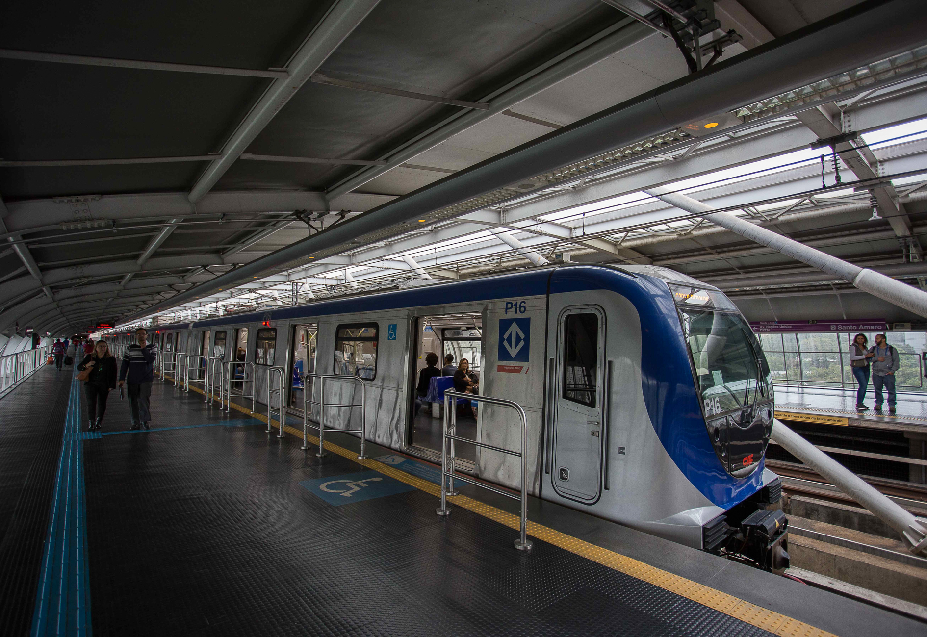 O governador Geraldo Alckmin entregou 8 novos trens da linha 5- Lilás e do sistema CBTC na estação Capão Redondo. Foto: Mastrangelo Reino/A2IMG